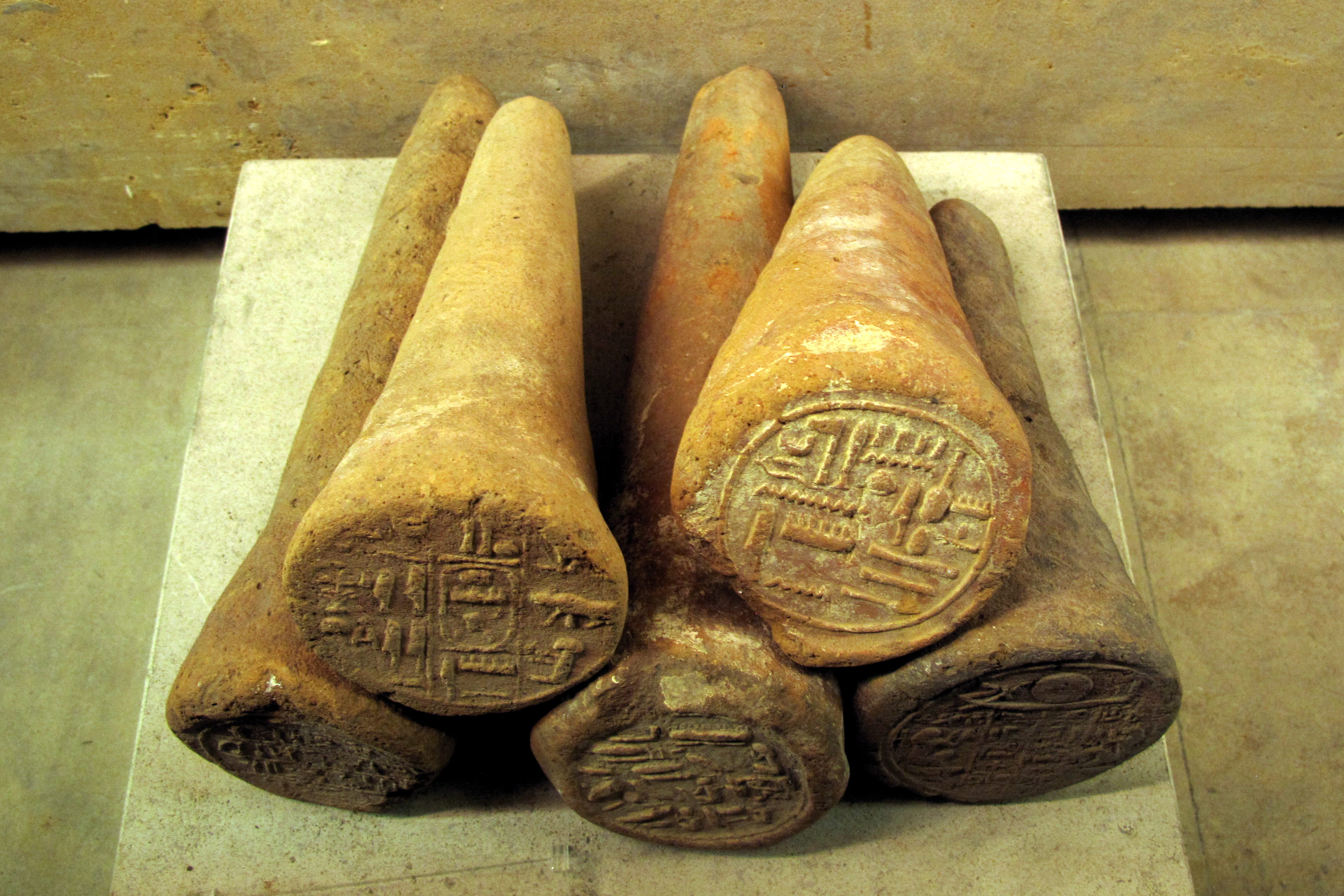 Funerary cones, New Empire, terra cota.